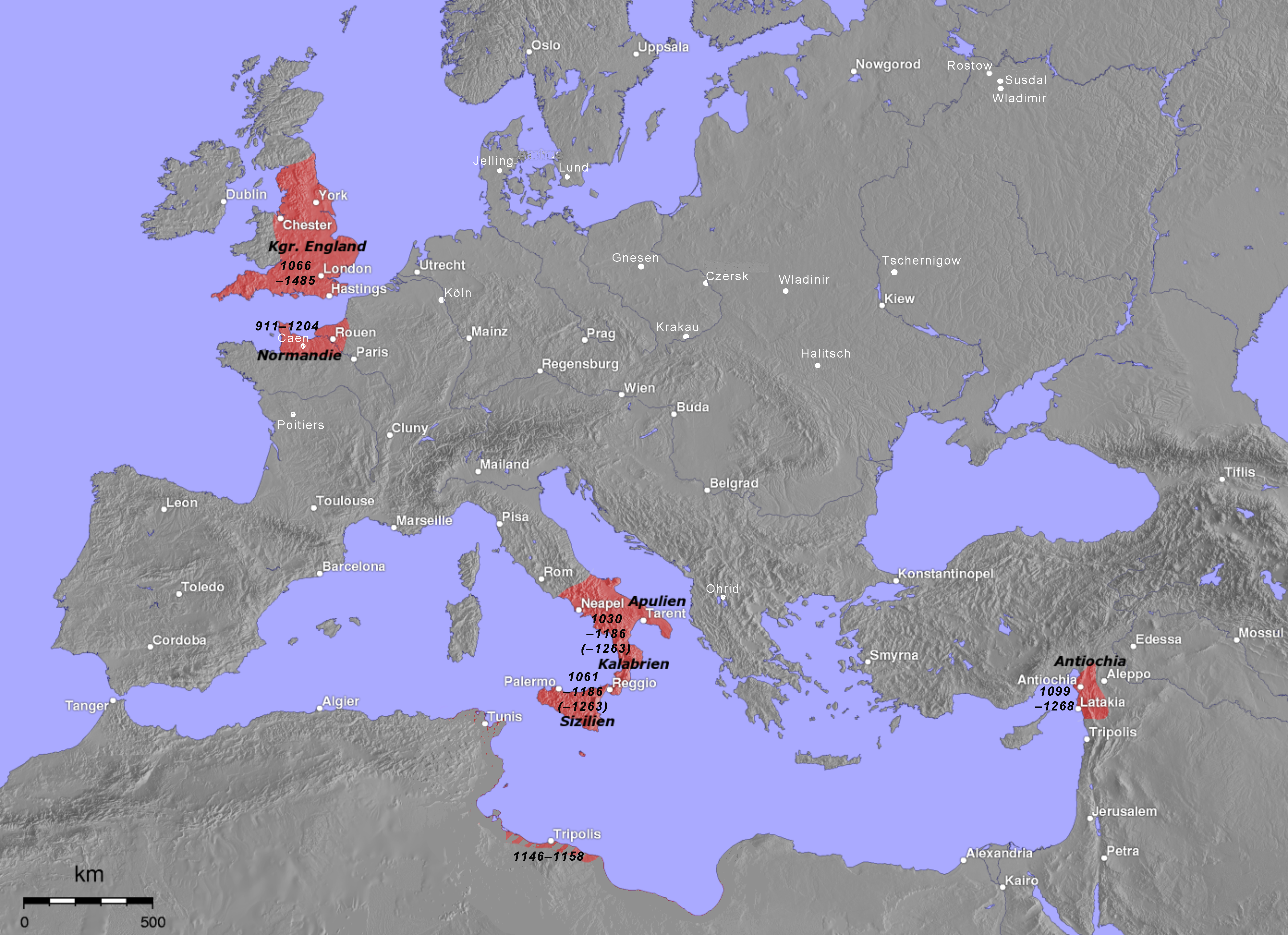 Map of the Normans' possessions in the 12th century (in German)